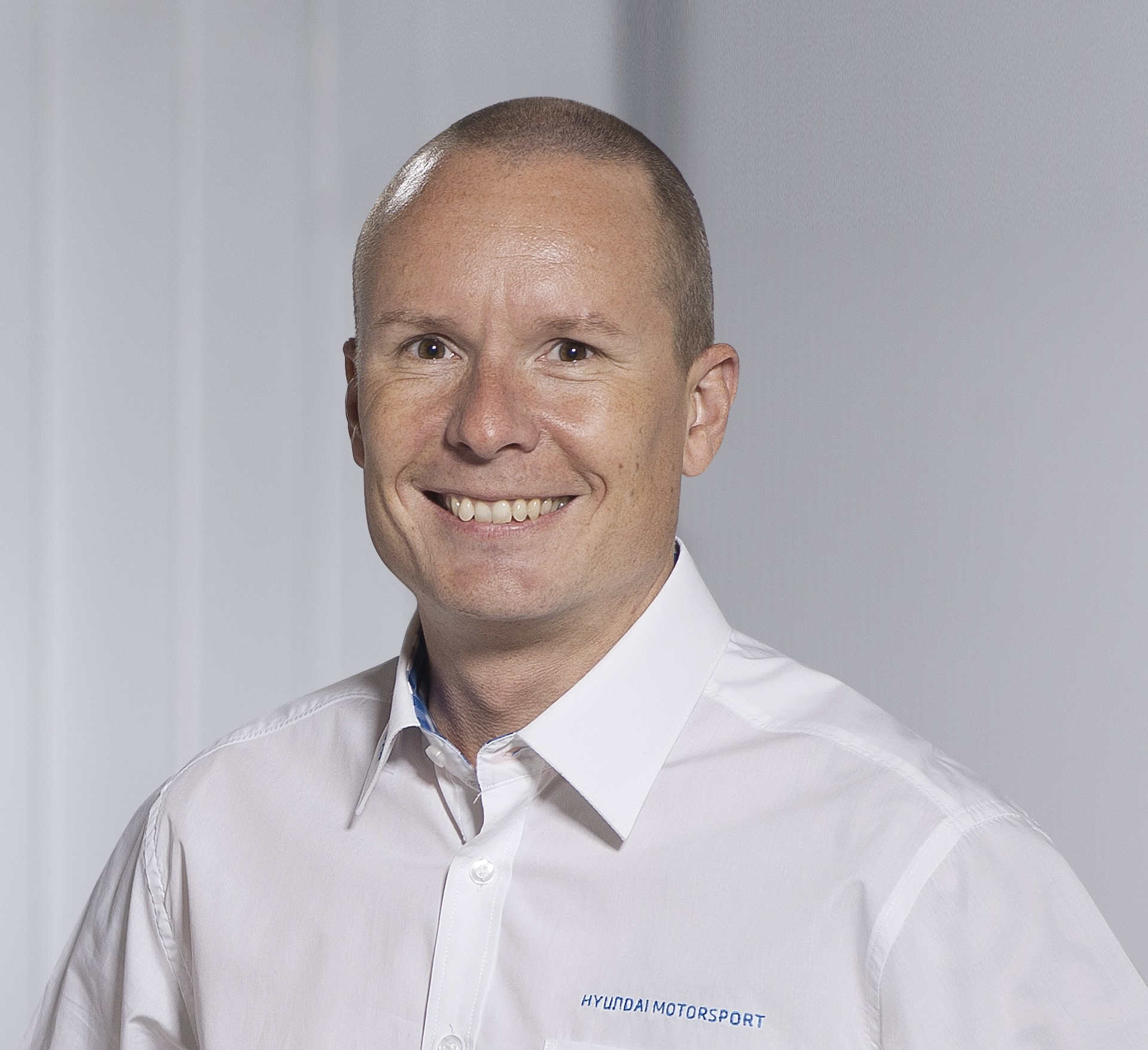 Finnish rally co-driver and television presenter/commentator Tomi Tuominen.